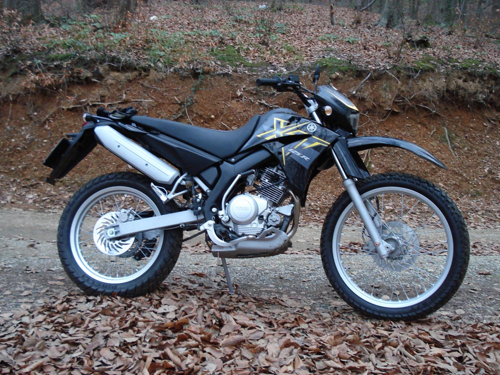 Yamaha XT125R